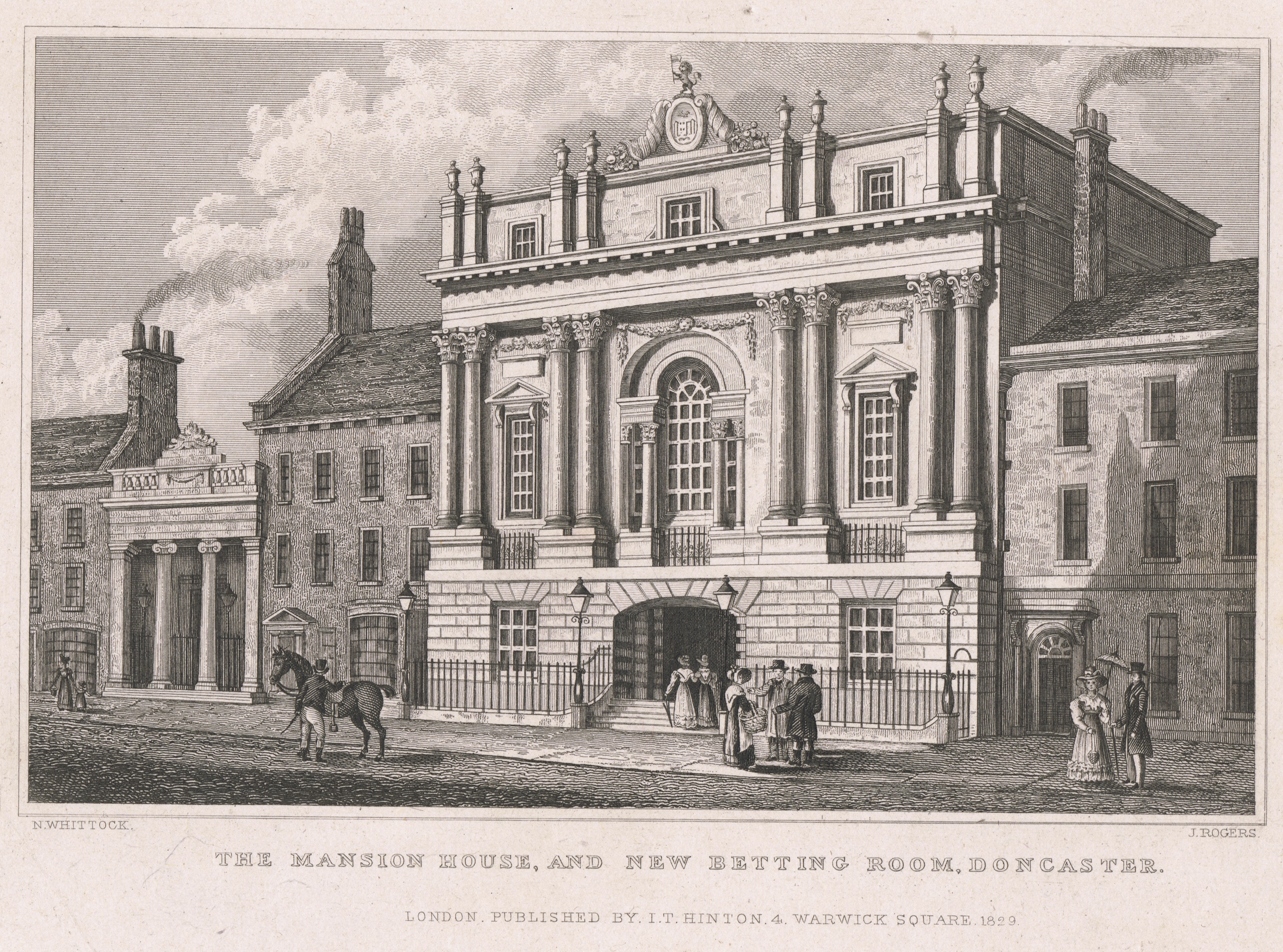 Scan (by me, R. de Salis, Rodolph (talk) 23:41, 19 October 2015 (UTC)) of the Mansion House and New Betting Room, Doncaster, Nathaniel Whittock & John Rogers, published by Isaac Taylor Hinton, London, 1829. Isaac Taylor Hinton was connected to Isaac Taylor. Other information first seen in: A New and Complete History of the County of York, by Thonas Allen, Author of the History of Lambeth, History of London, &c. illustrated by a Series of Views, Engraved on Steel from Original Drawings by Nathaniel Whittock.; Published by I. T. Hinton, Warwick Square, Dec. 1. 1828.'